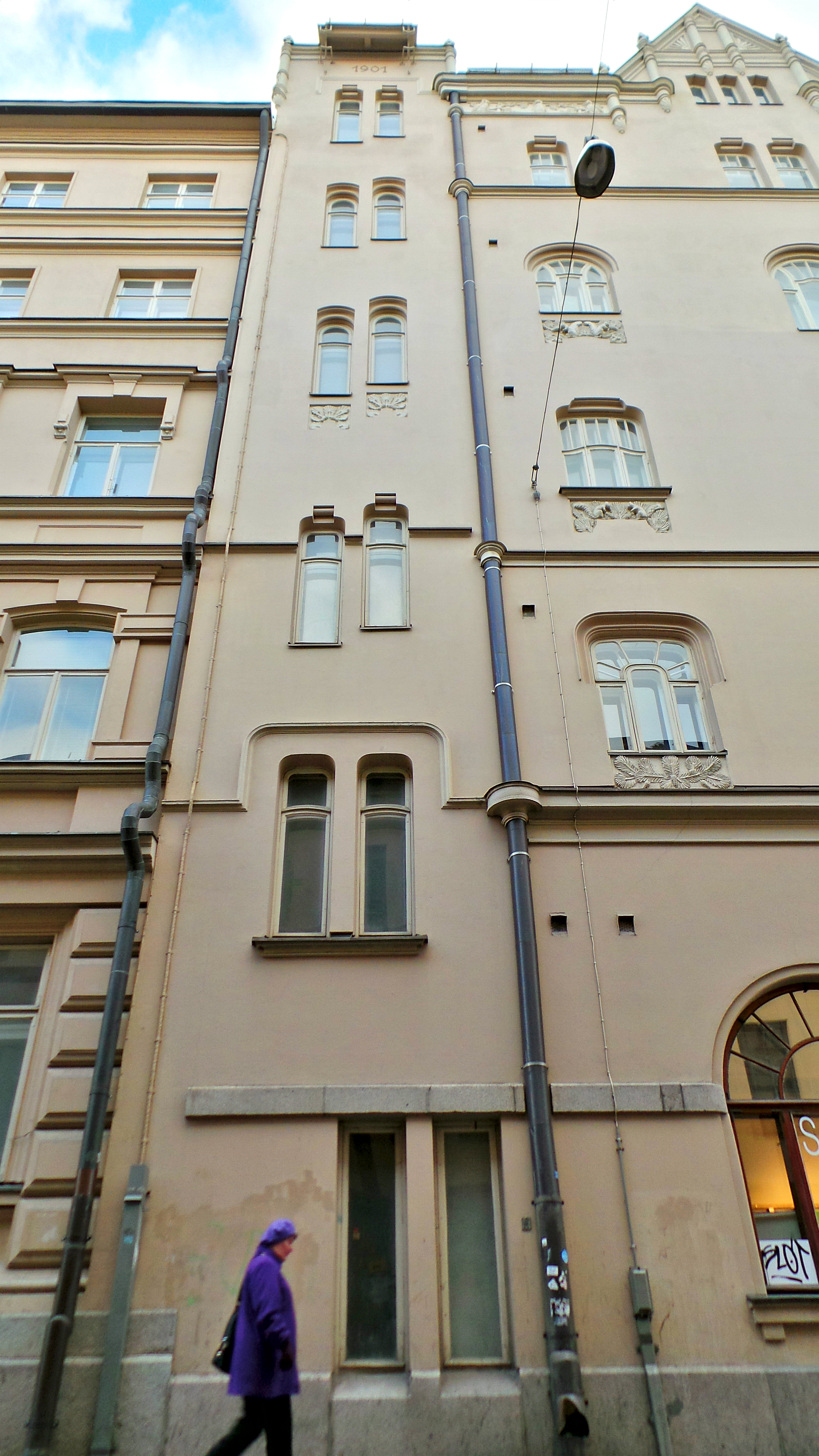 Person along street between Laukontori and Keskustori